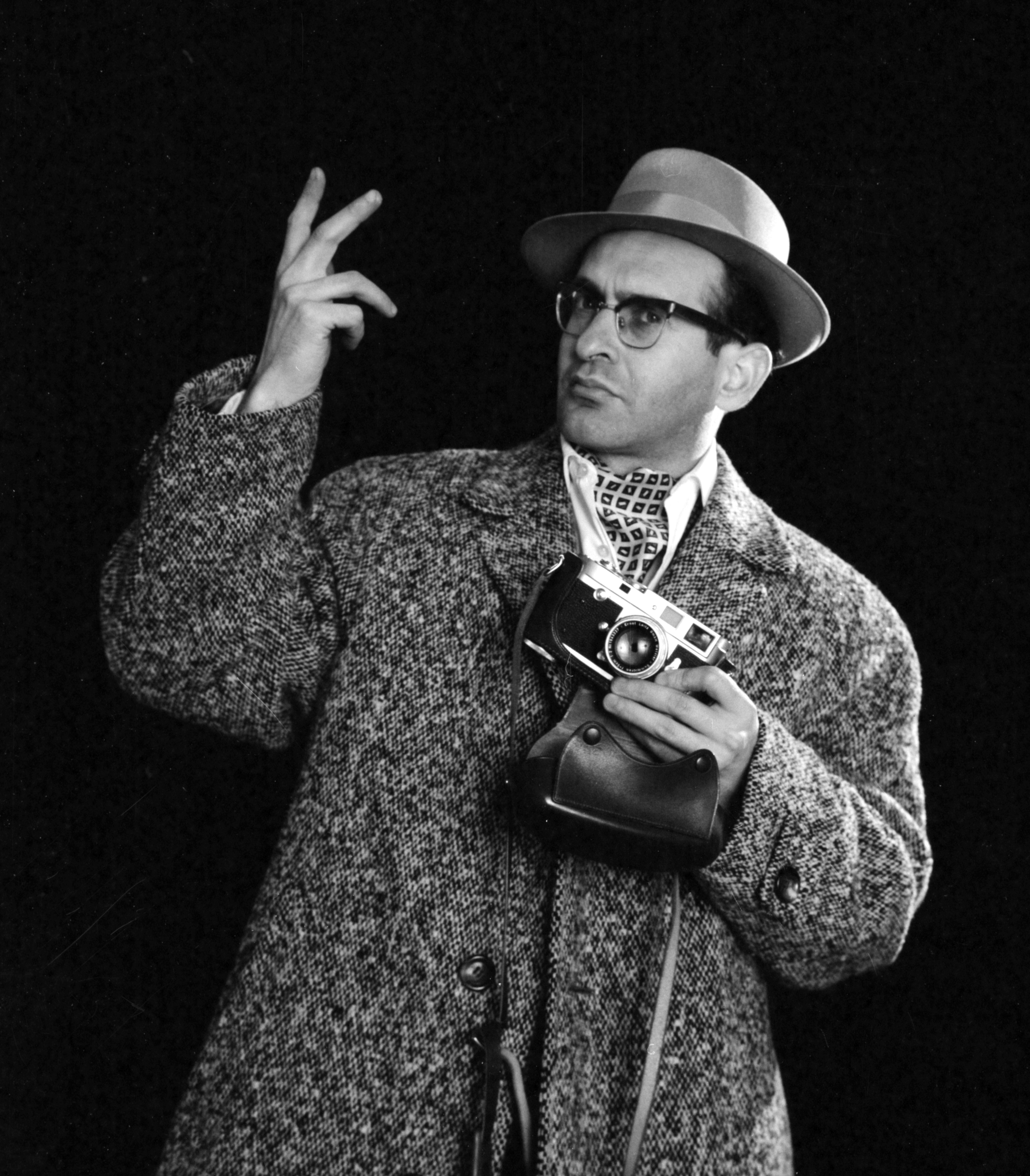 Ivan Köves